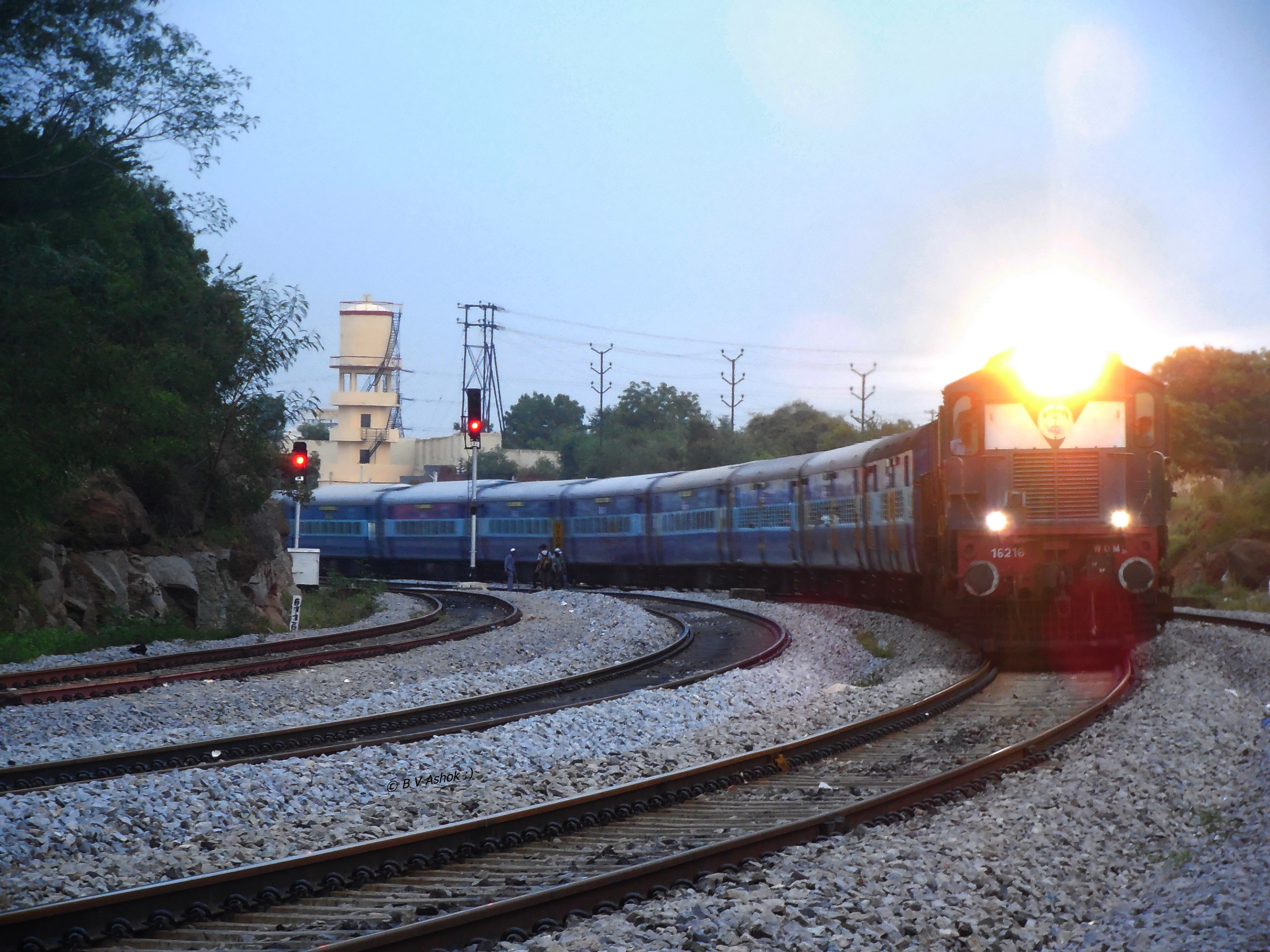 ET WDM-3A twins led by 16216 negotiating a curve with 17604 Secunderabad - Manmad Ajanta Express...